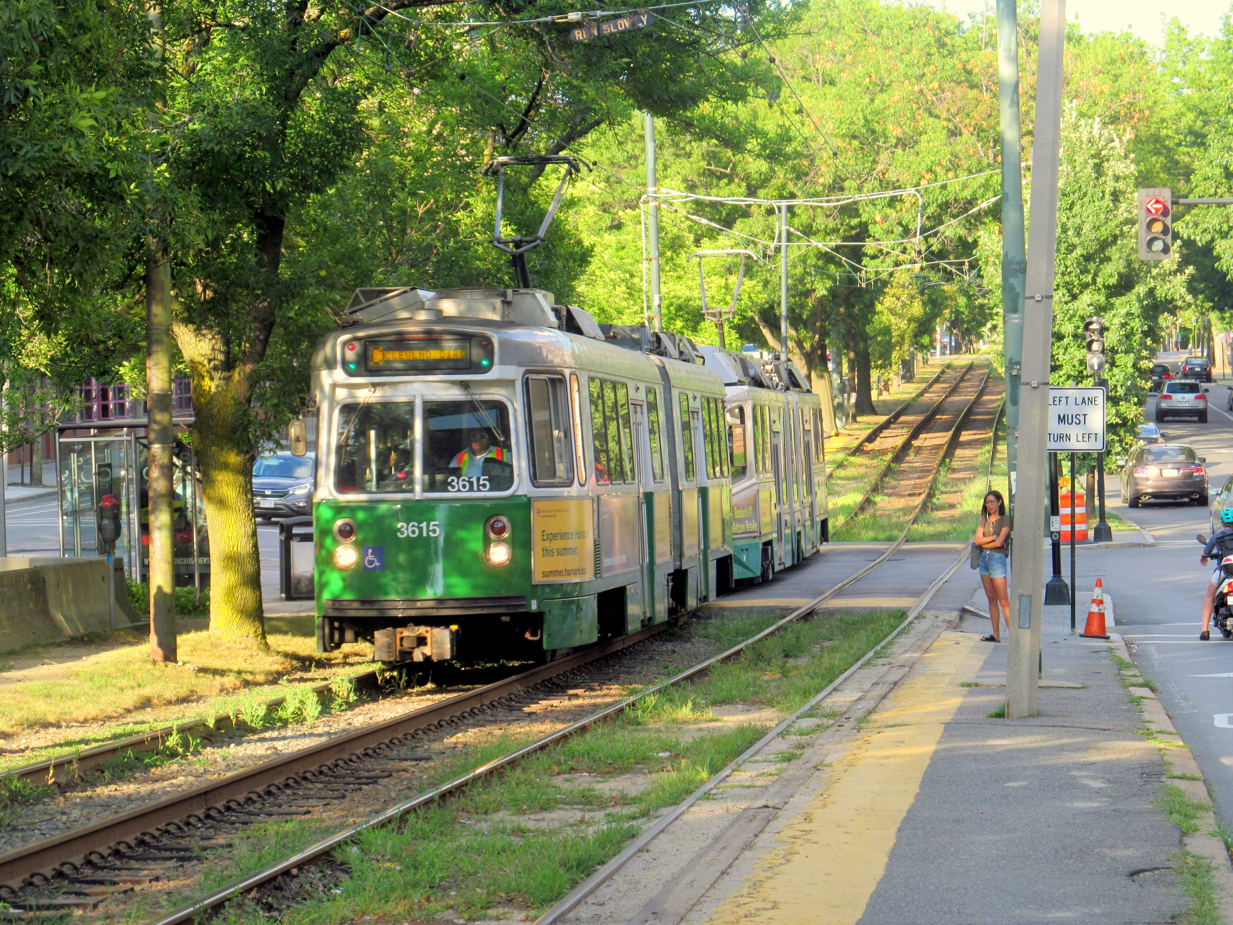 An outbound train passes the inbound platform at St. Paul Street station in August 2016